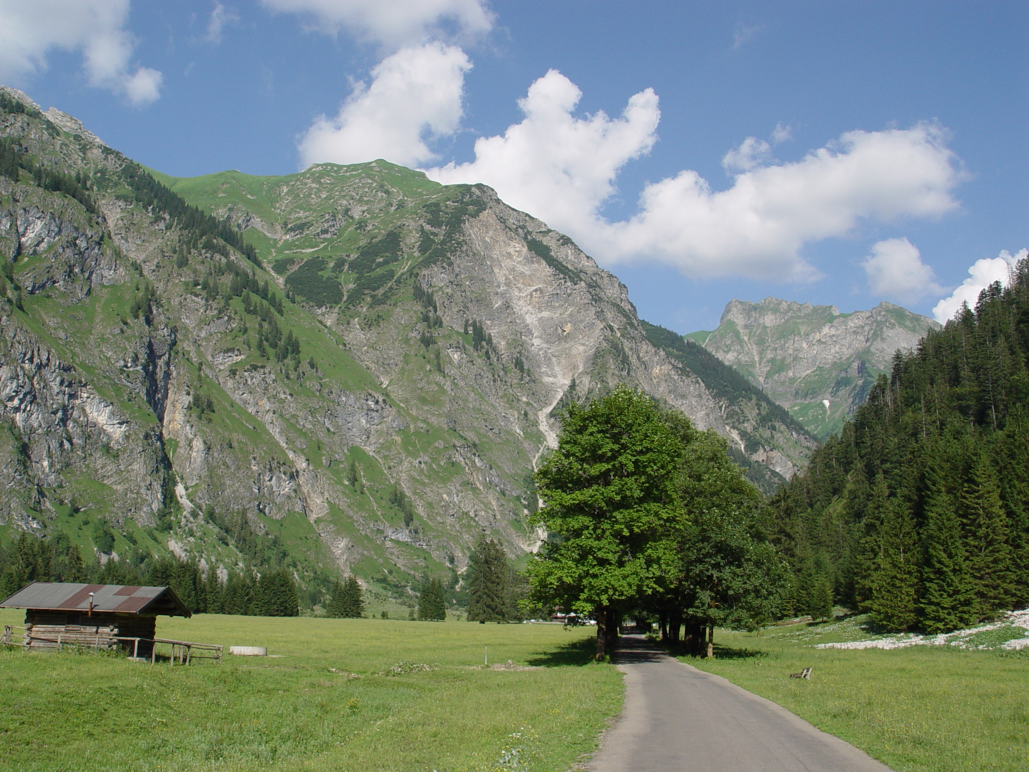 Oytal Blick ins obere Tal